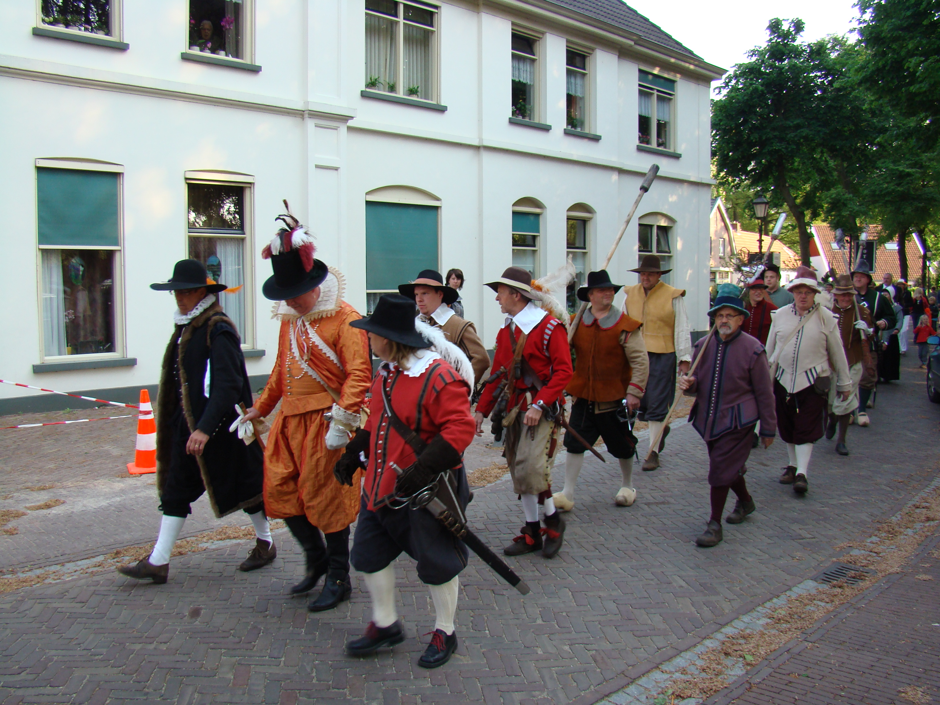 Impressions of Compagny Onversaegt and Compagny Grol, shooting the canon at Bredevoort.